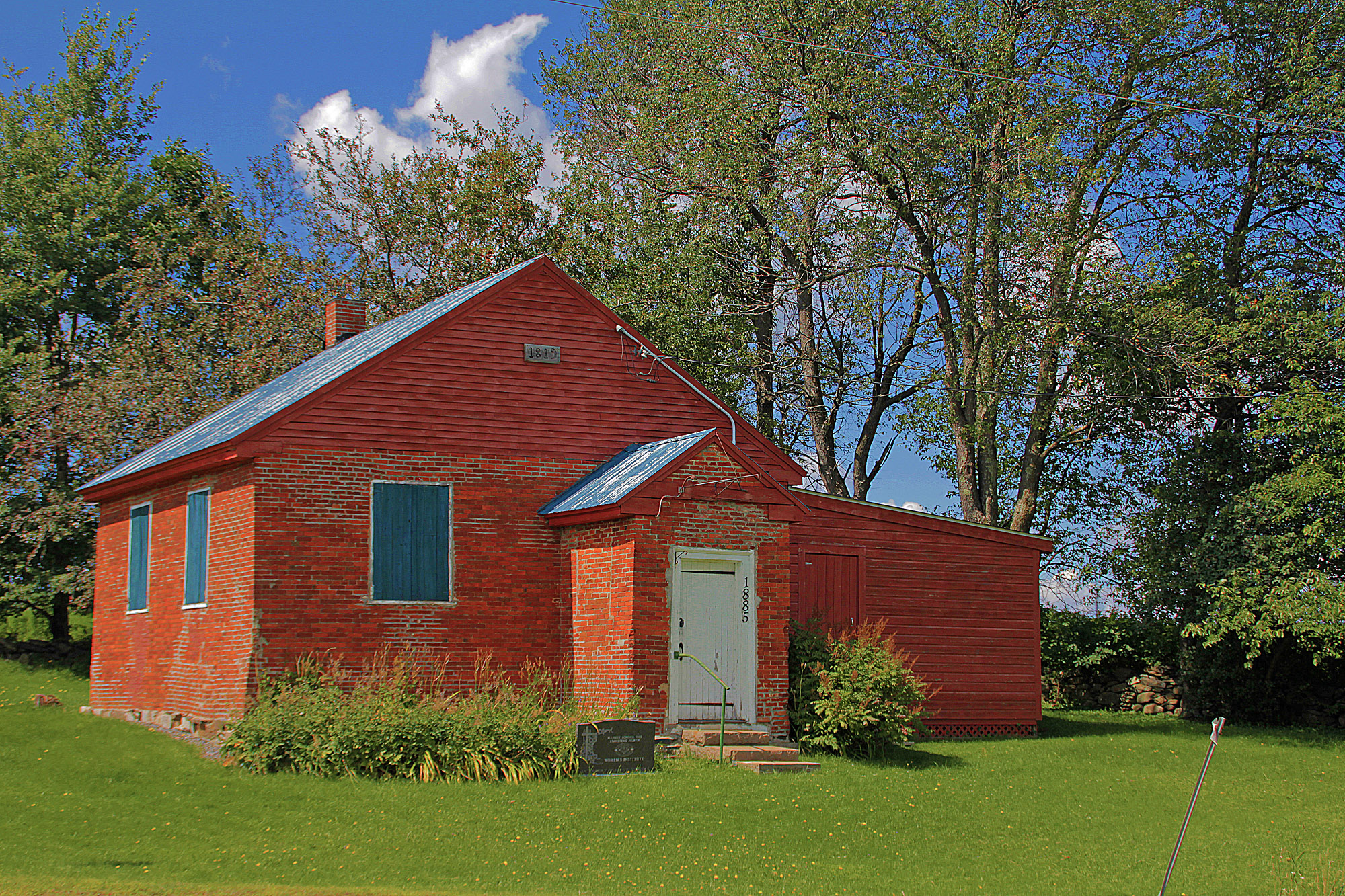 Mansur school in Stansted-Est